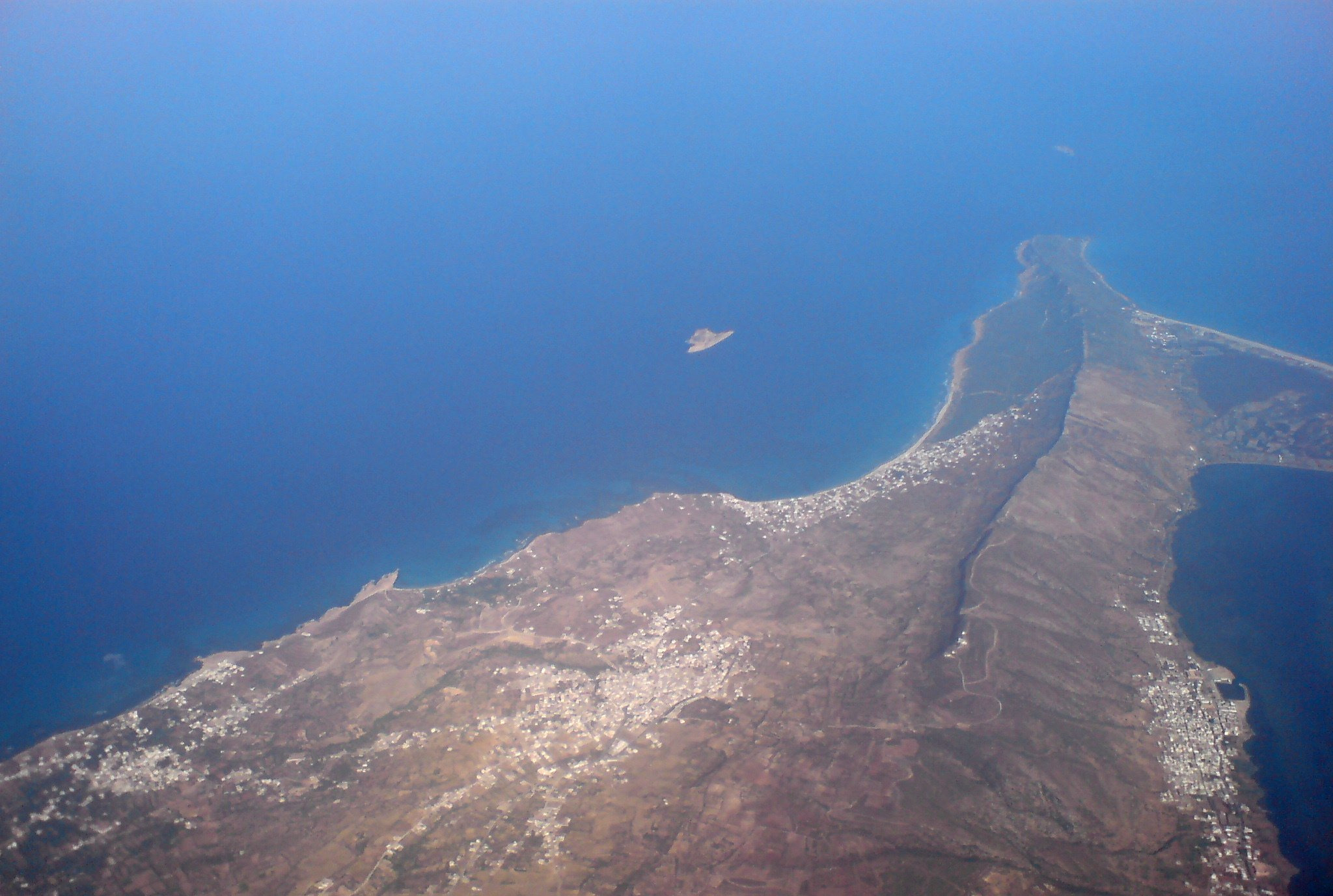 Aerial photo of Cap Farina, Tunisia